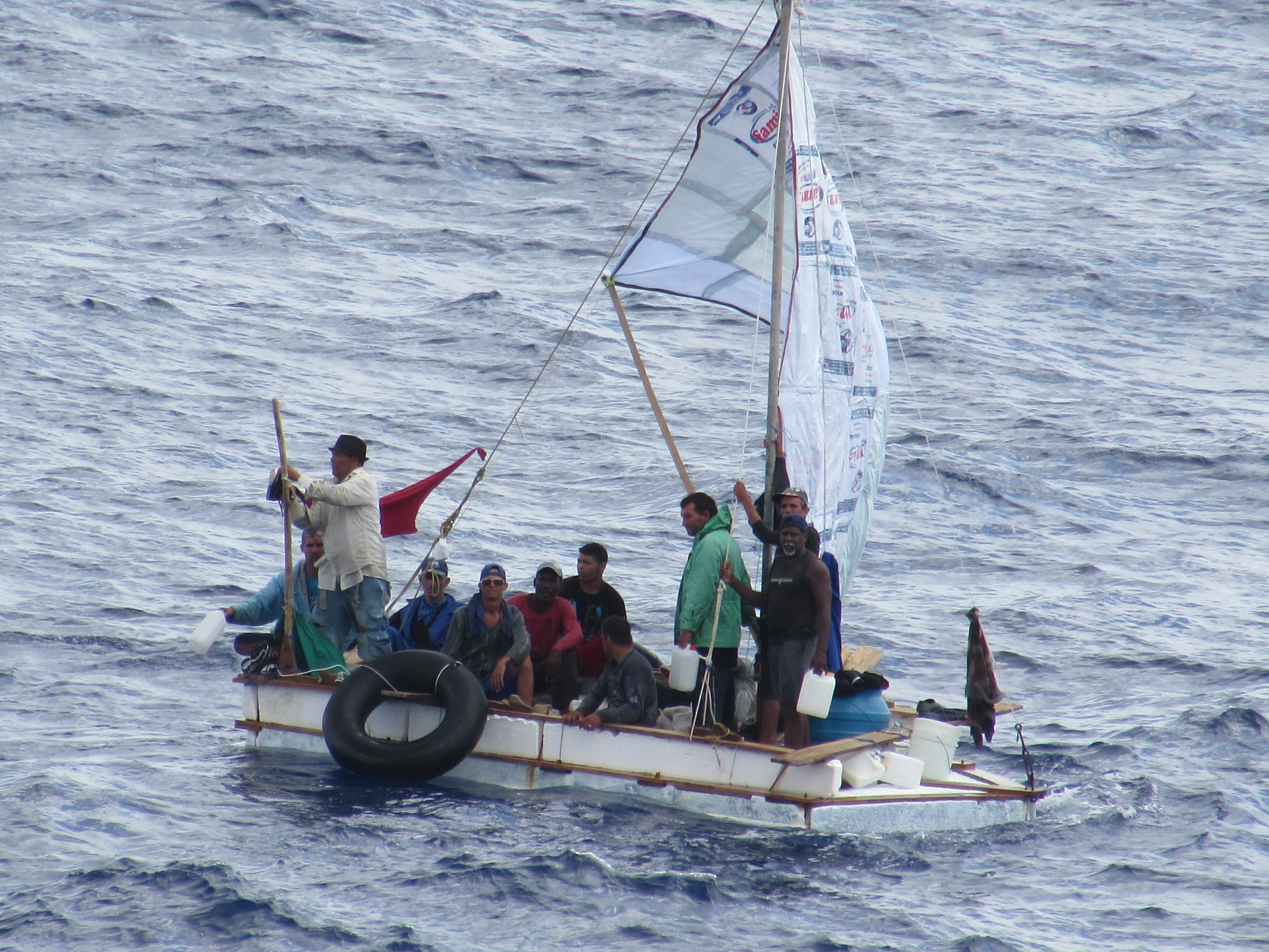 Taken on the Carnival Liberty in August 2014, Cuban refugees that built a raft and were rescued by the ship.